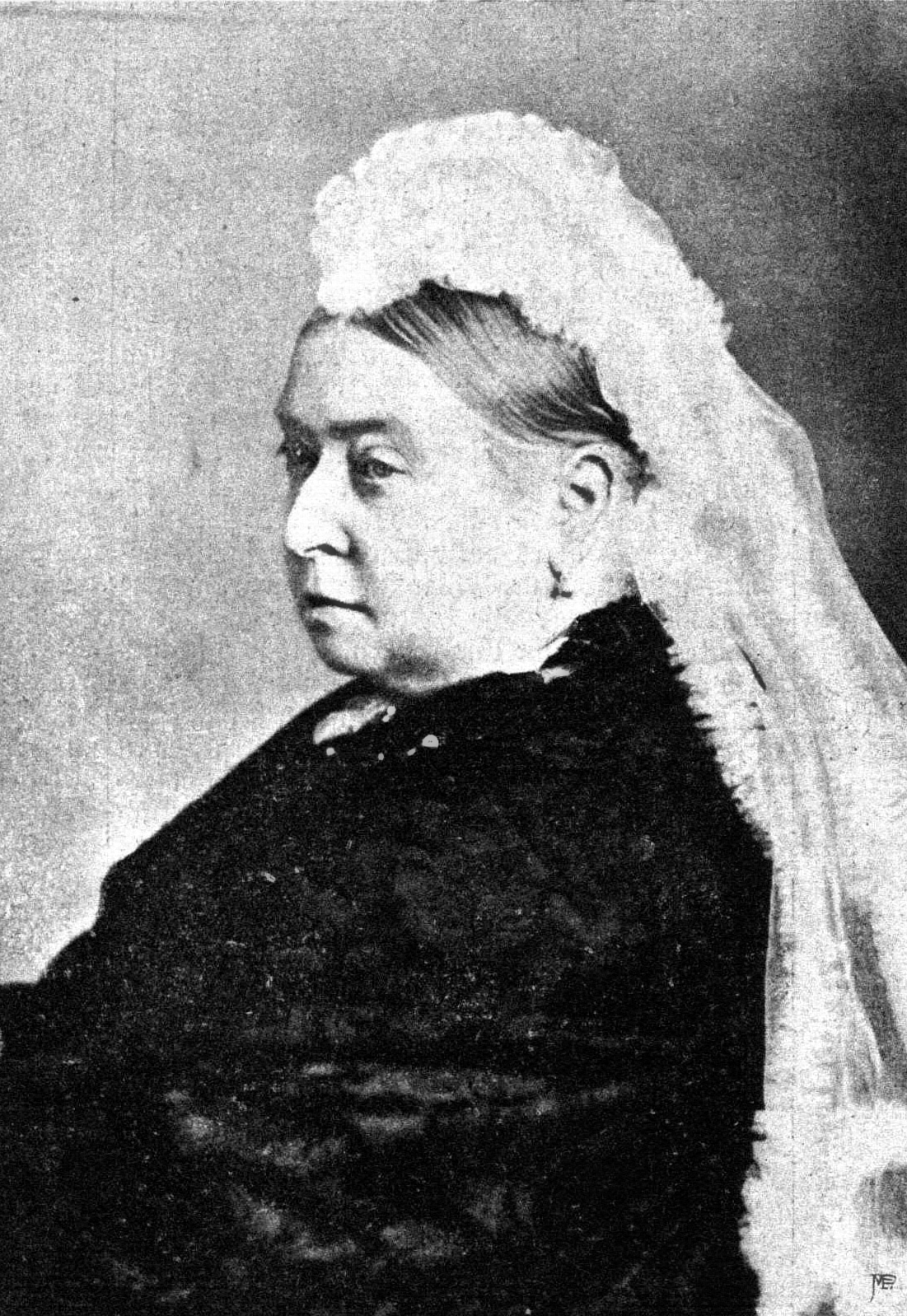 Victoria (1819–1901), Queen regnant of the United Kingdom of Great Britain and Ireland from 1837, first Empress of India of the British Raj from 1876